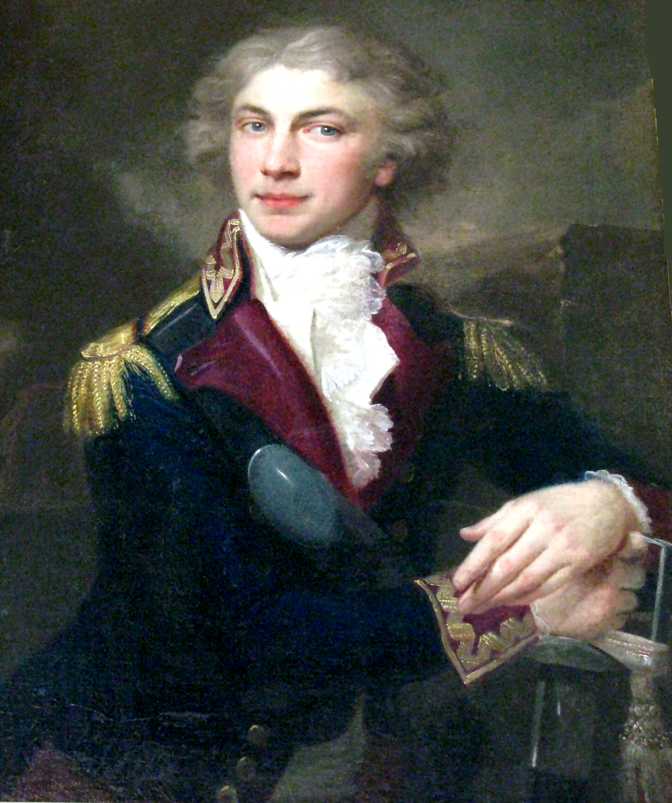 Portrait of Józef Kossakowski (1772-1842), aide de camp of Napoleon Bonaparte